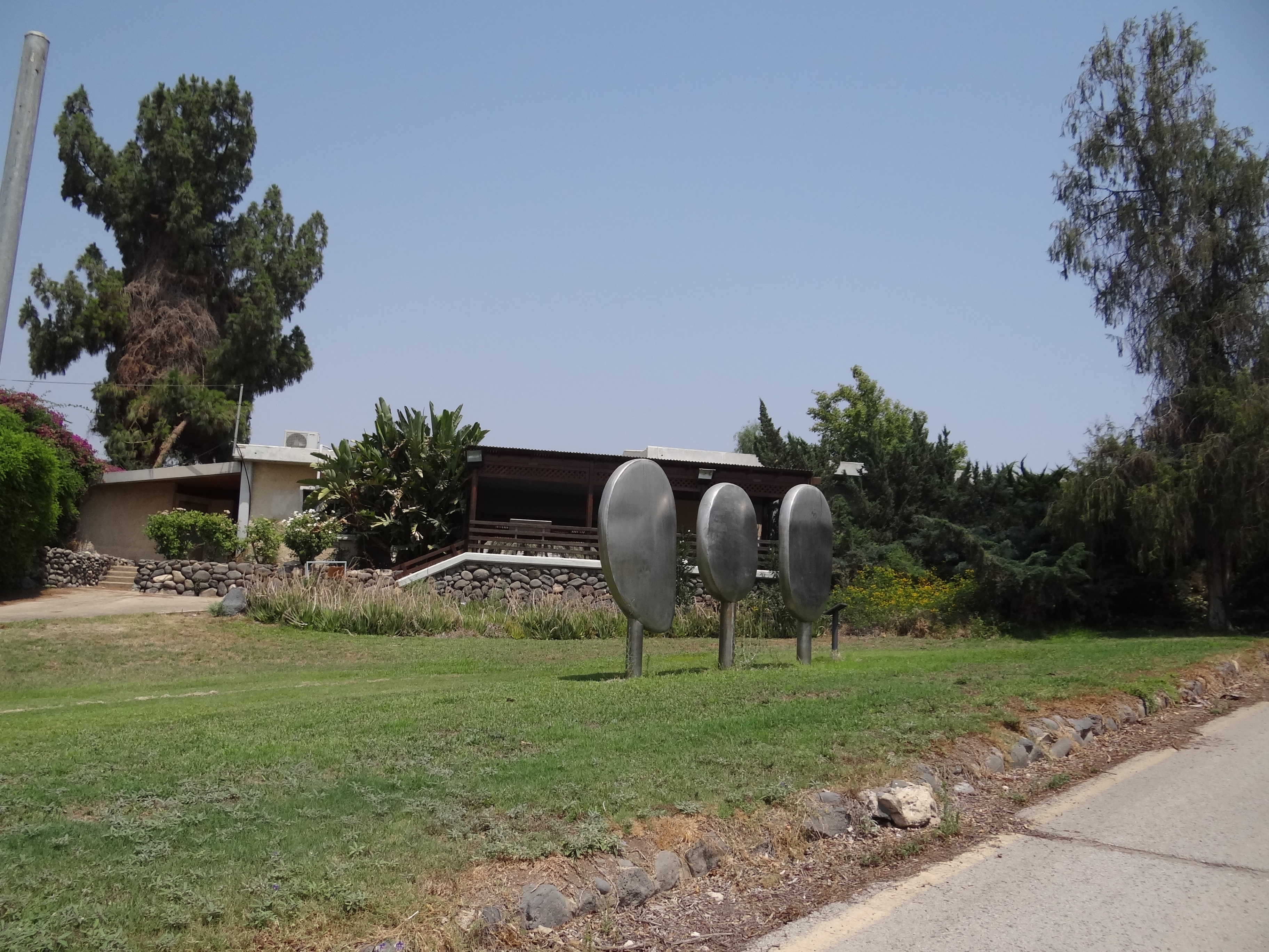 Yarmukian Culture Museum in kibbutz Shaar Hagolan